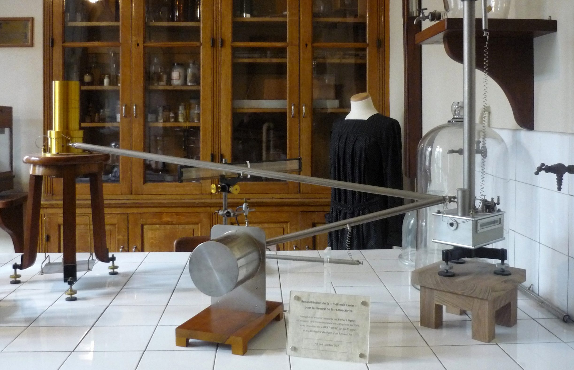 Marie Curie's laboratory, Marie Curie Museum Paris